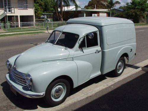 Morris Cowley MCV Van. Photo by David Crawshaw in January 2002.